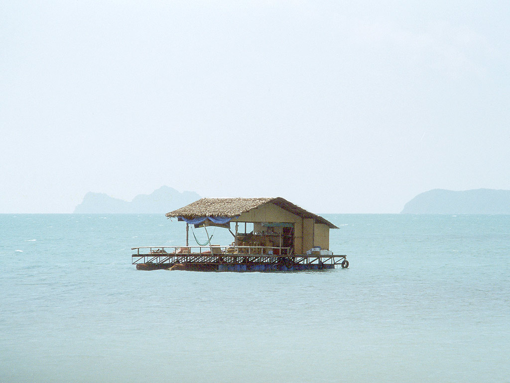 Near Haad Rin, Koh Phangan (Surat Thani, Thailand), on the horizon: the small islands Koh Tae Nok (right) und Koh Tae Nai (left)